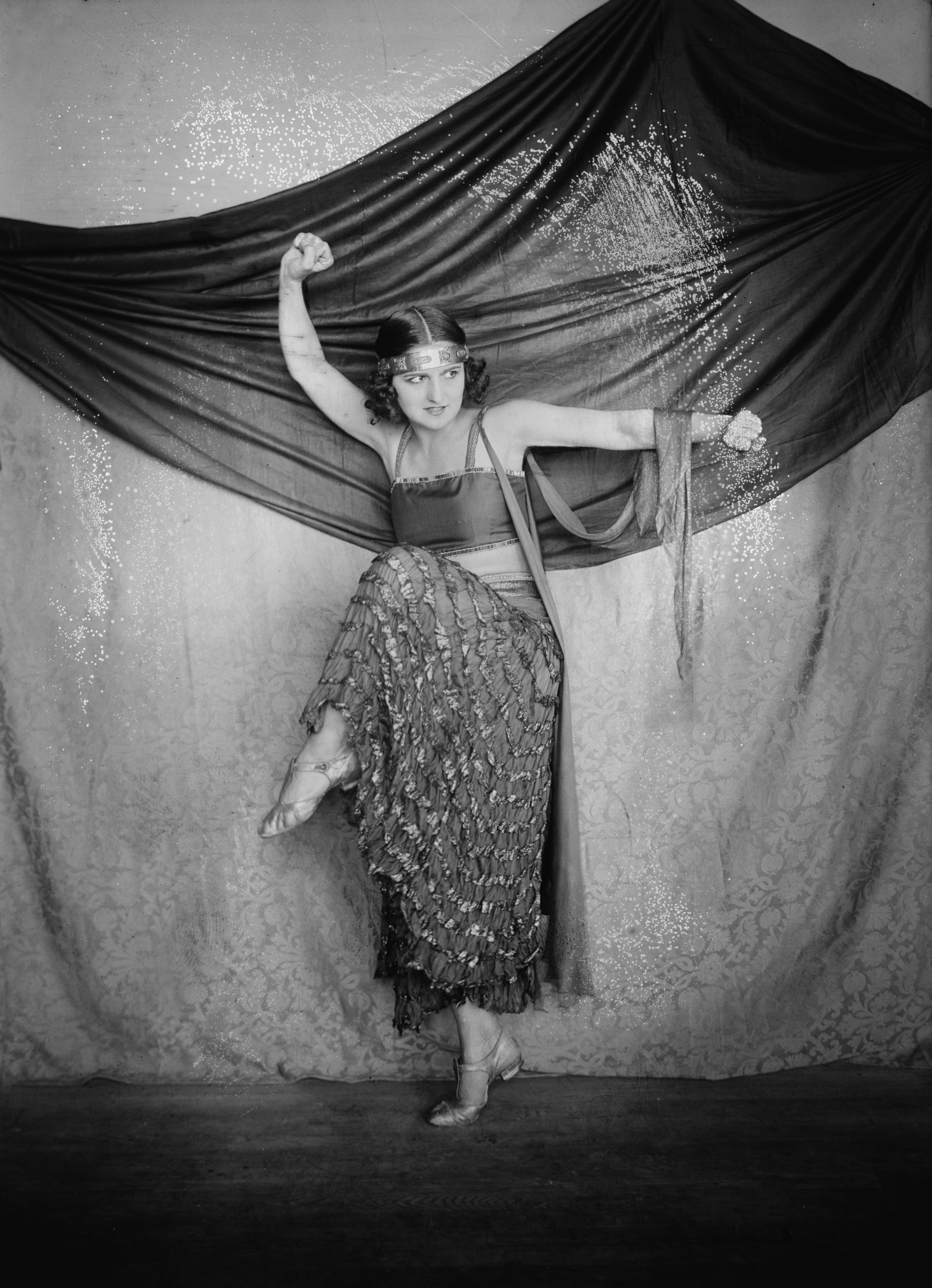 Viennese choreographer Albertina Rasch, circa 1915.